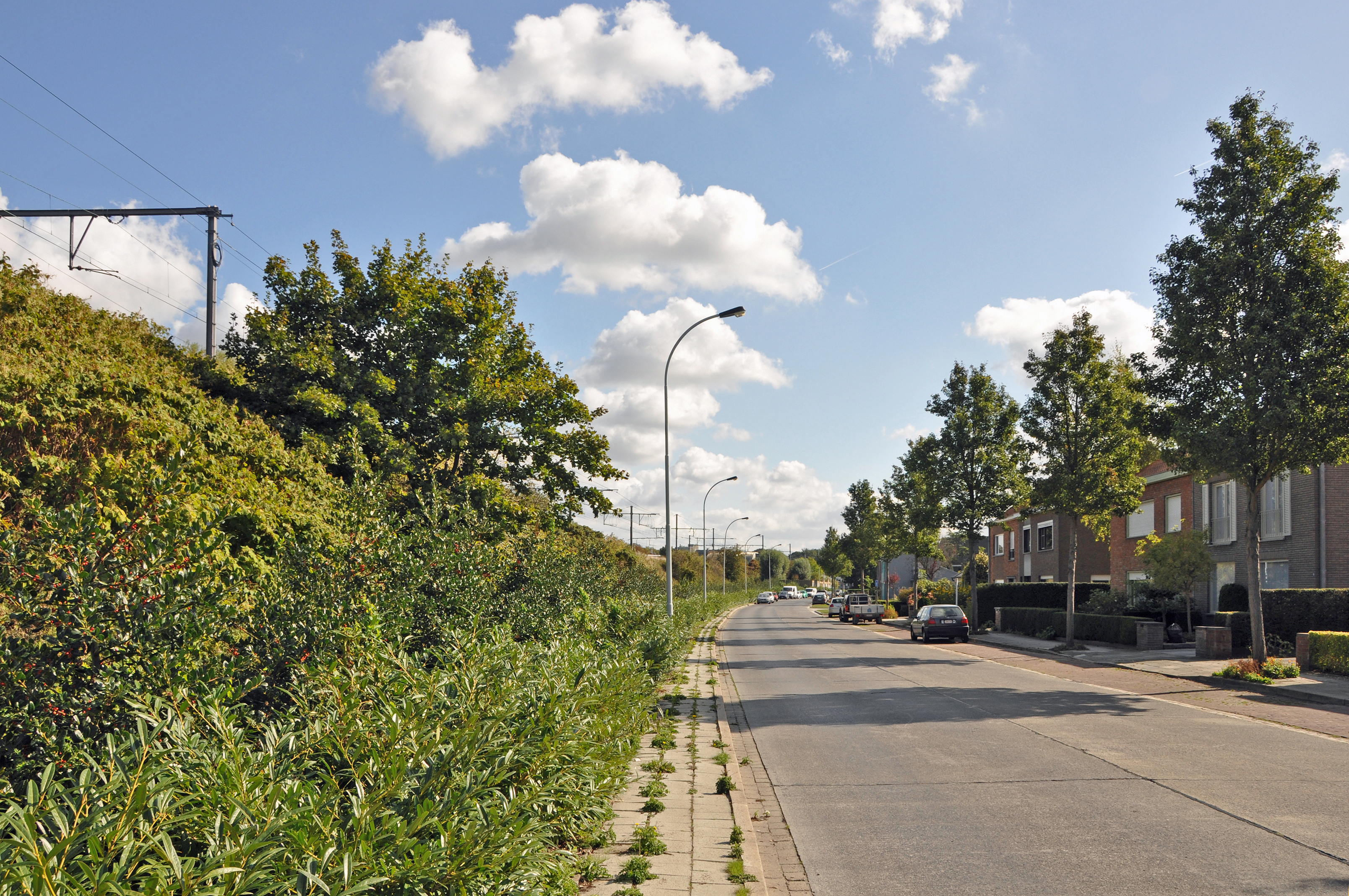 Bruges (Belgium): the Hoge Lane (street) in Sint-Andries